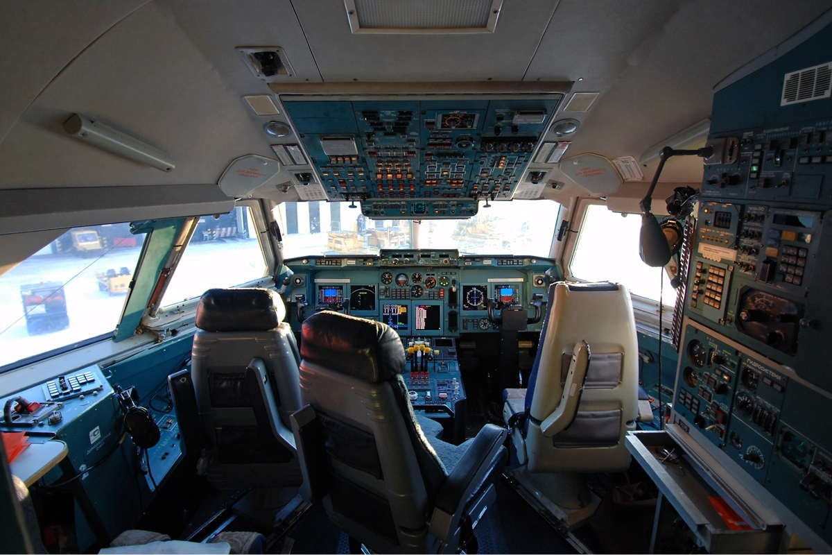 Cockpit of Aeroflot Ilyushin Il-96 RA-96010